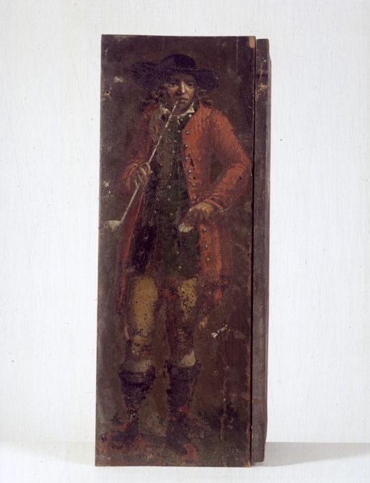 Painted shutter from Augustinus' tobaco manufactury at Vestergade 5 in Copenhagen, Denmark. The Building featured a series of painted shutters depicting tobaco worrkers and people smoking.